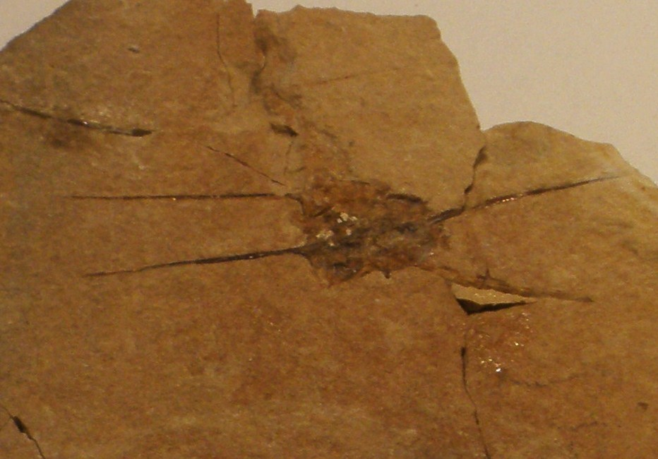 Fossil of Eolactoria sorbinii, an extinct fish